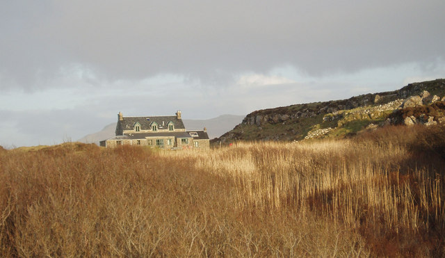 The house on Little Colonsay, near to Torr M?r [hill or Mountain], Argyll And Bute, Great Britain. This is the only house on the island.